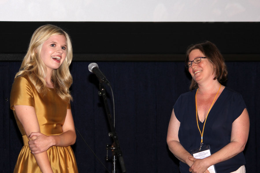 Ana Mulvoy-Ten and writer/director Marya Cohn during the Q&A for "The Girl in the Book"